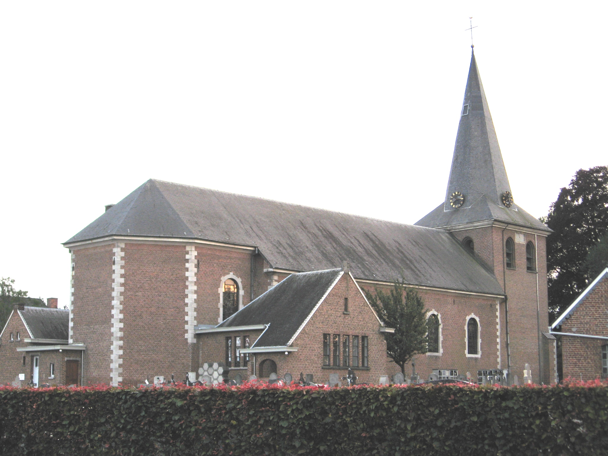 Church of Saint Lawrence in Brustem, Sint-Truiden, Limburg, Belgium